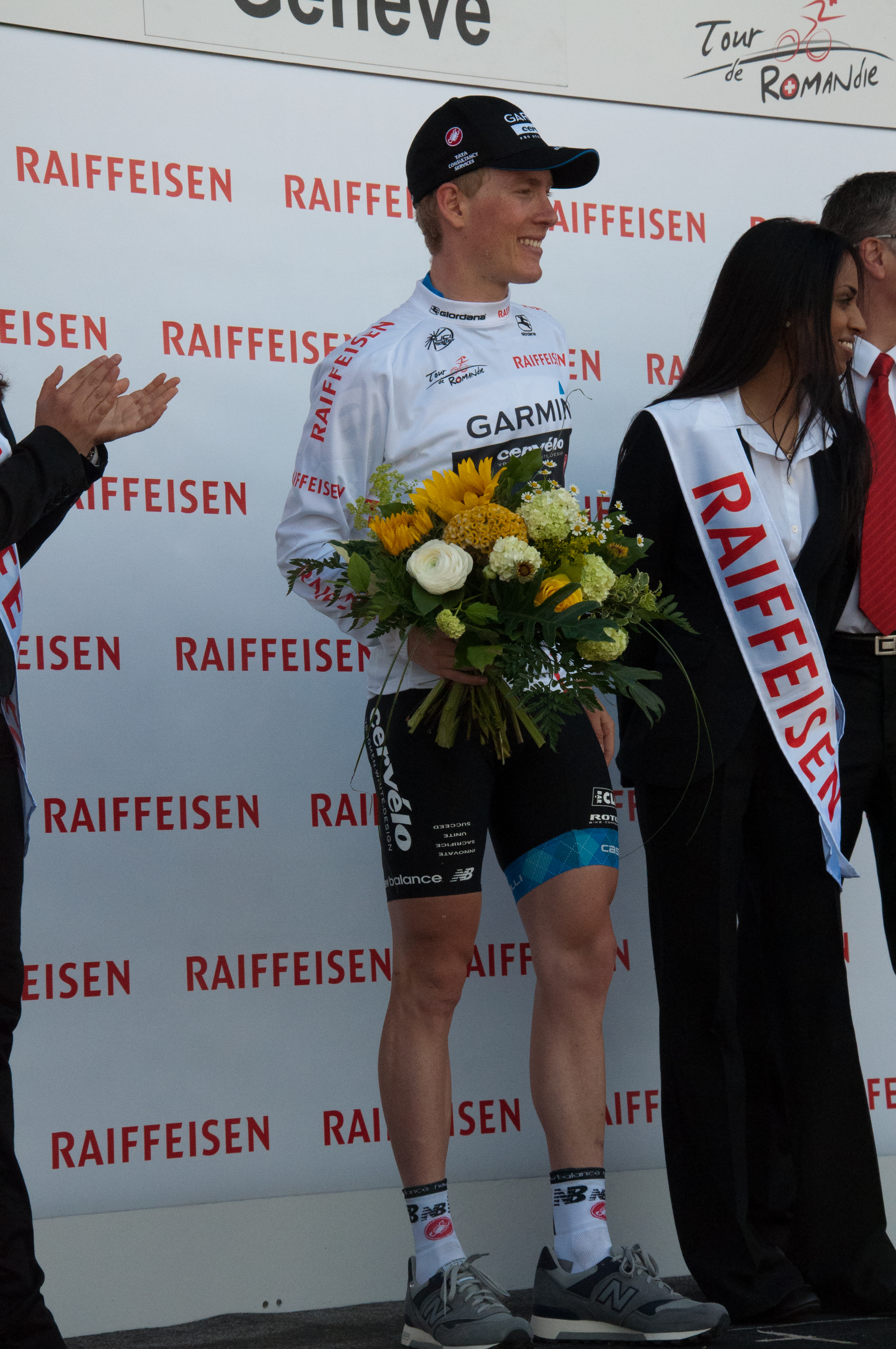 2011 Tour de Romandie, Winner of the Youth Classification Andrew Talansky wearing the final White jersey.